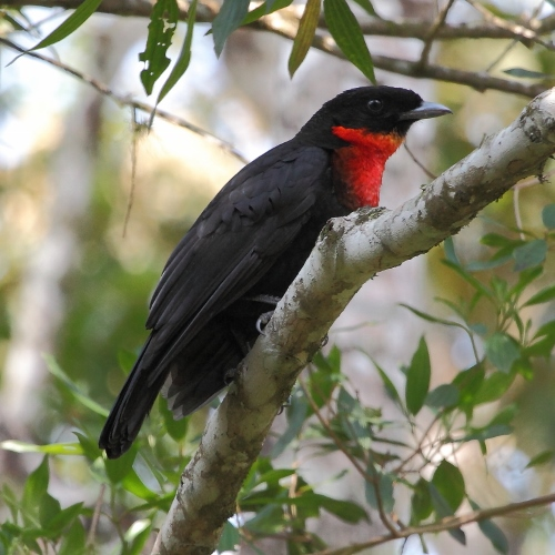 Red-ruffed Fruitcrow (female) at Intervales State Park - SP - Brazil